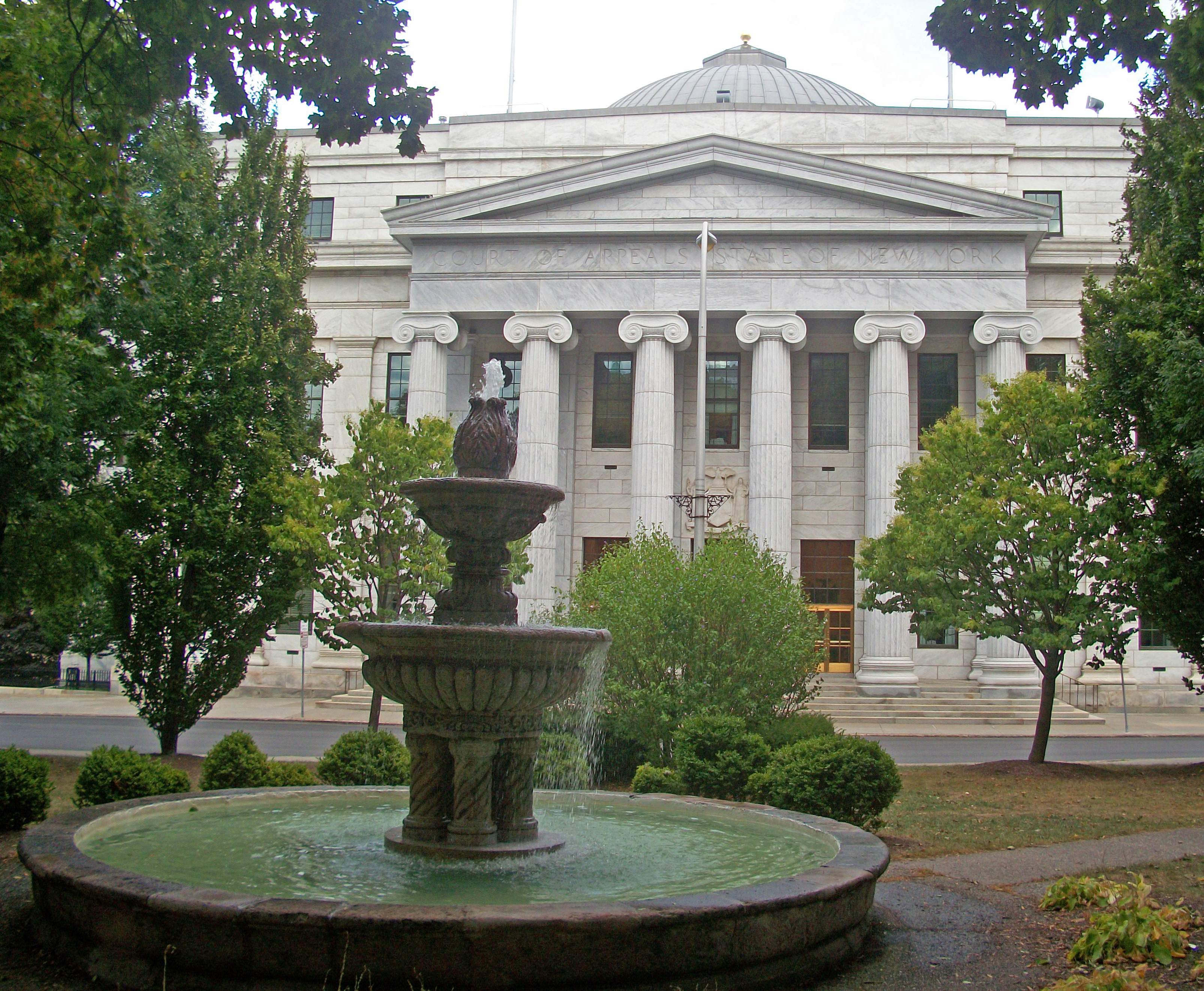 View of the New York Court of Appeals building in Albany, NY, USA, from Academy Park far enough back from Eagle Street that its dome is visible.